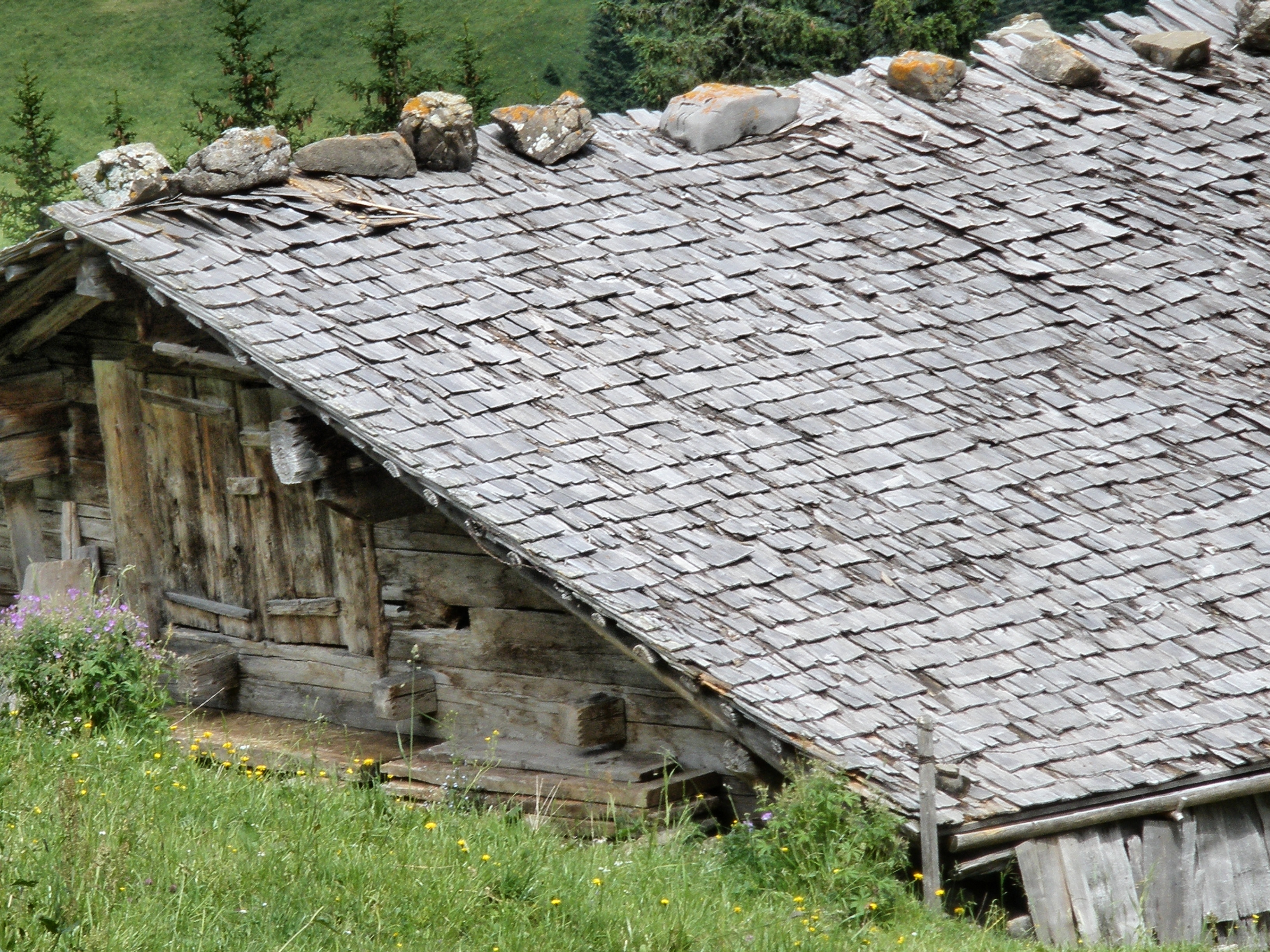 Roof with wooden shingles, Alp Farni near Adelboden, Switzerland